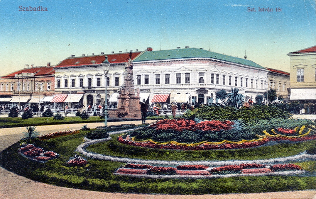 Postcard, undated ( ca.1914 ). Title: "Szabadka - Saint Stephen´s square"